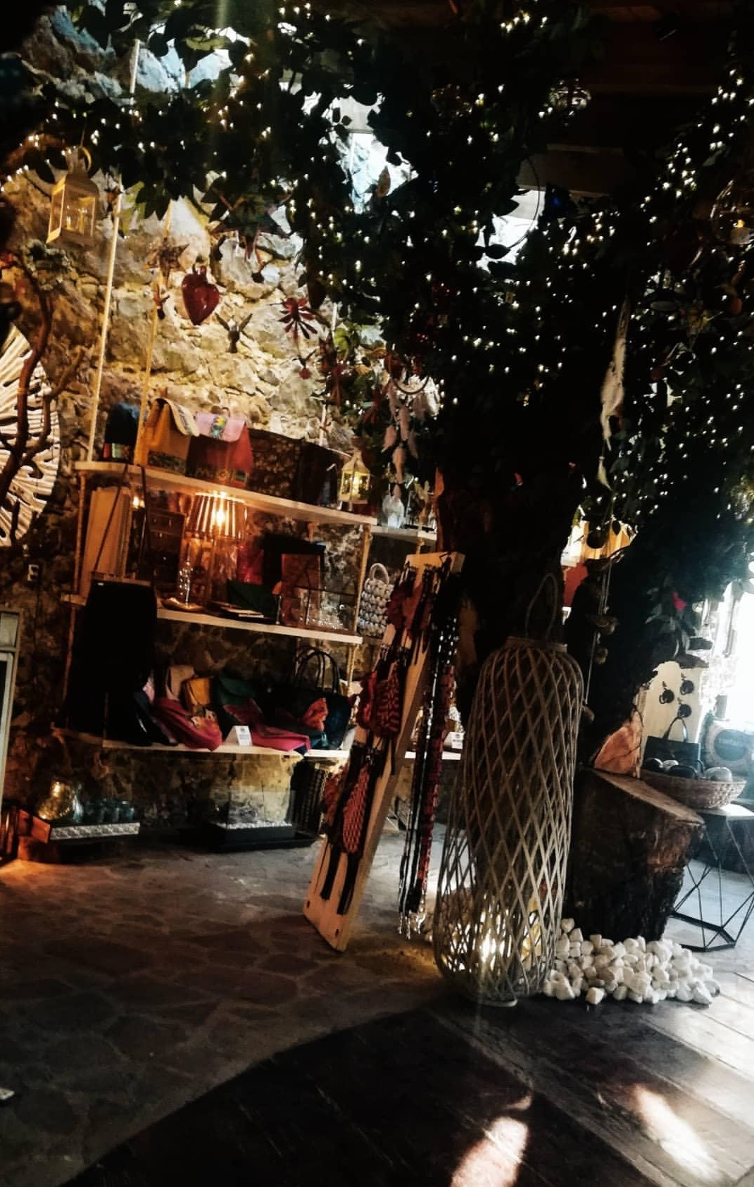 Located in the vestiges of Santa Agueda estate